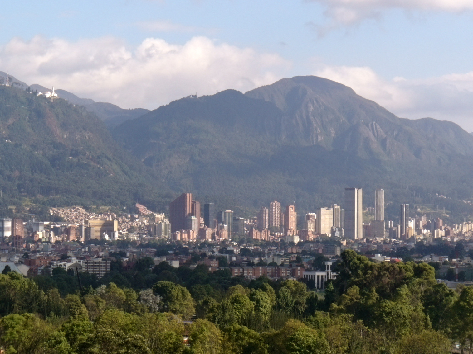 Skyline of Bogotá